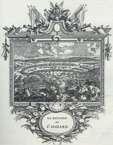 The Battle of Saint Gotthard; French painting